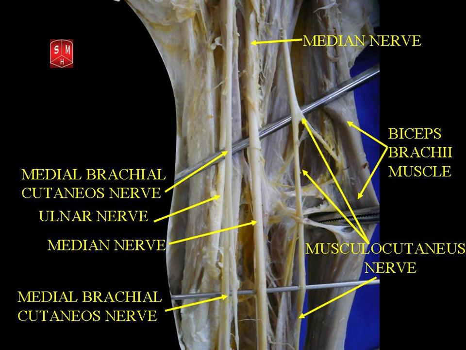 Dissection